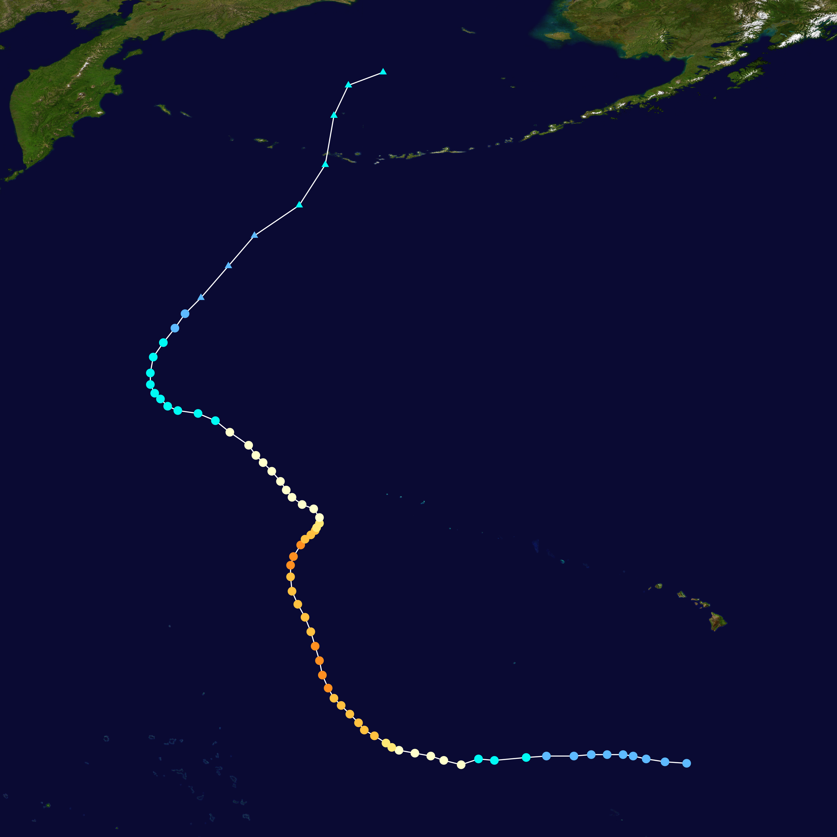 Hurricane Ele (2002) track. Uses the color scheme from the Saffir-Simpson Hurricane Scale.